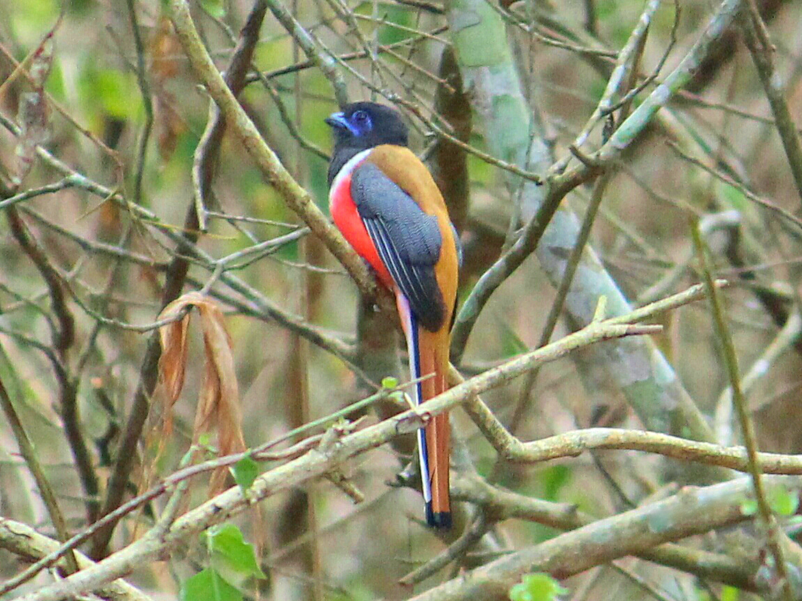 Malabar Trogan, Nagarahole, Mysuru